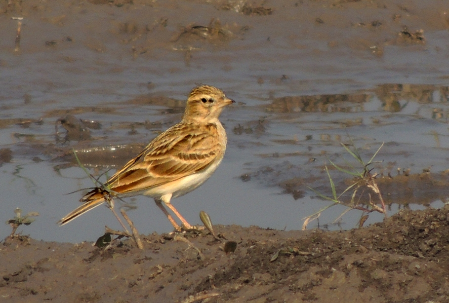 Hume's Short-toed Lark(Calandrella acutirostris). Akola, Maharashtra, India. Photographed by Mr.Ravi Dongle, Feb.2016